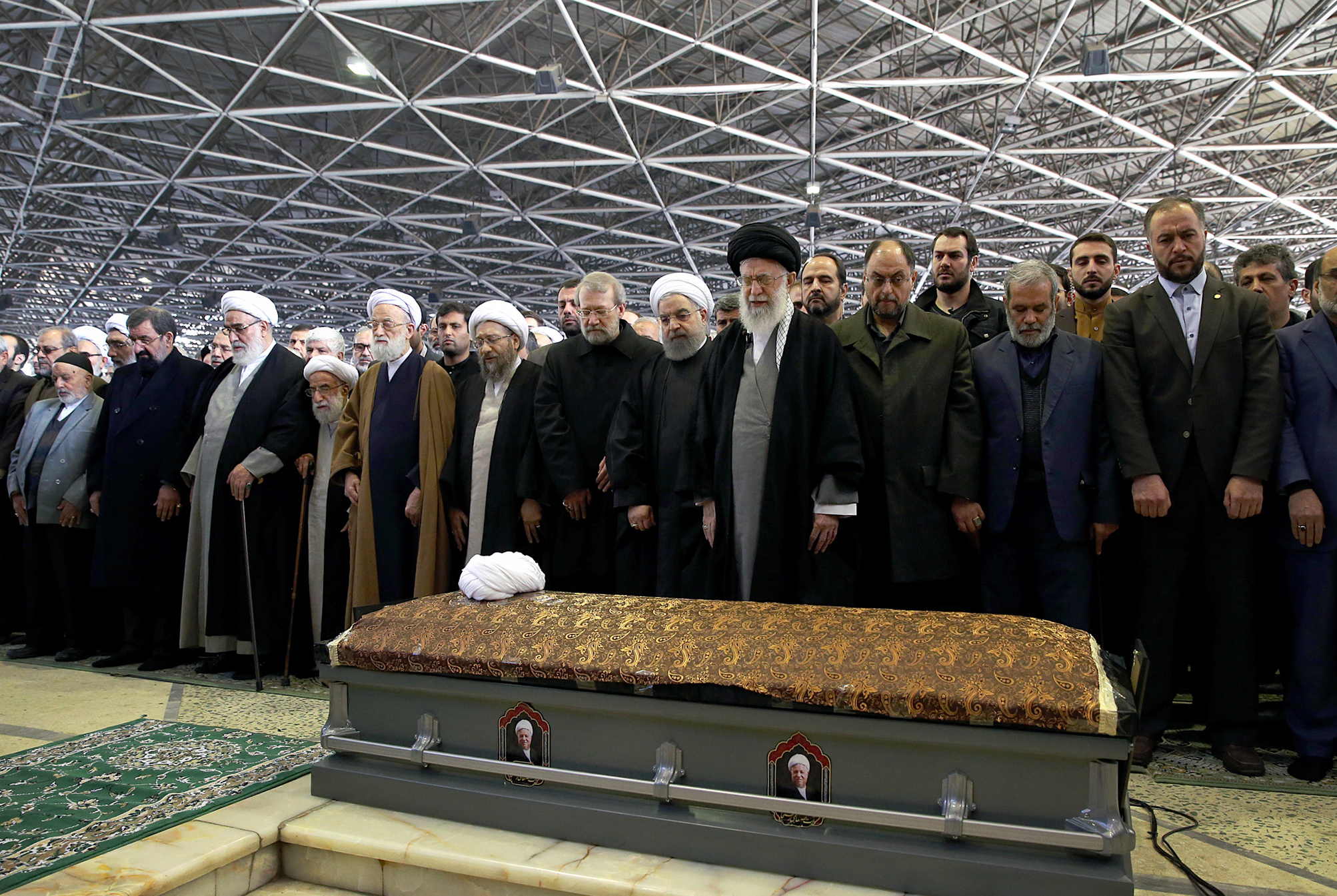 Akbar Hashemi Rafsanjani, former Iran's president state funeral in Tehran